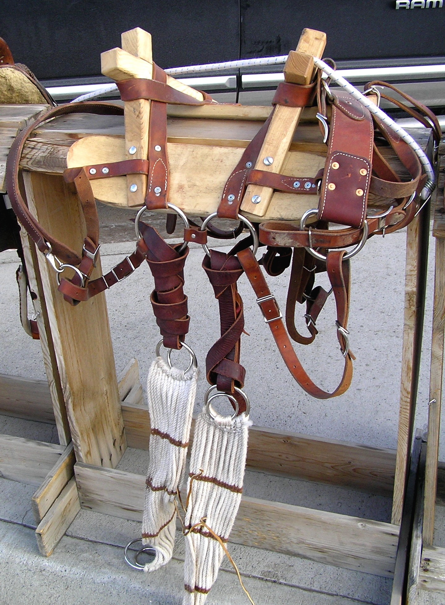 A "Sawbuck" style pack saddle, an old style still common in the western United States. Front and back cinches as well as breastcollar and breeching visible